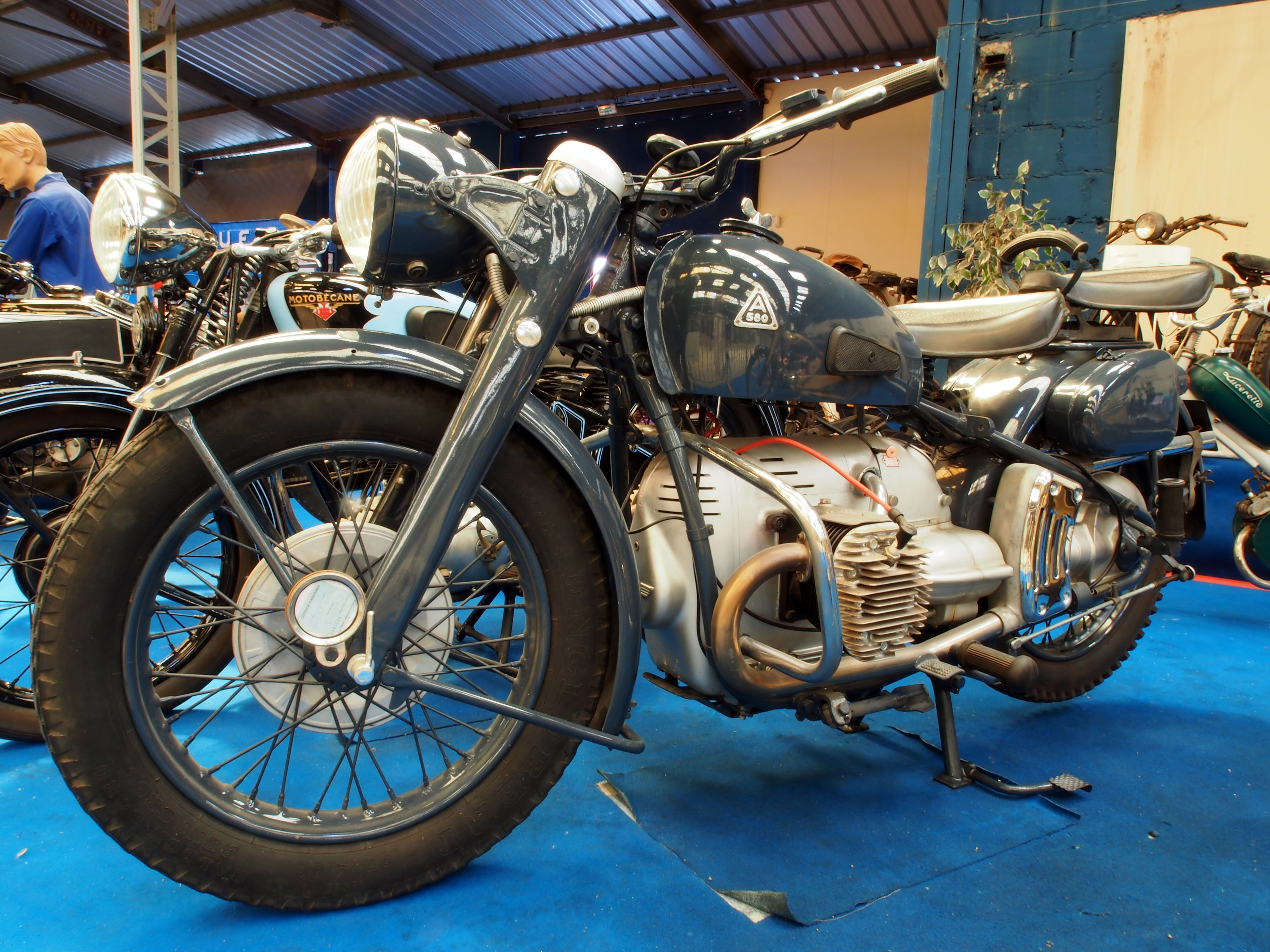 1949 Condor A580 (early model)